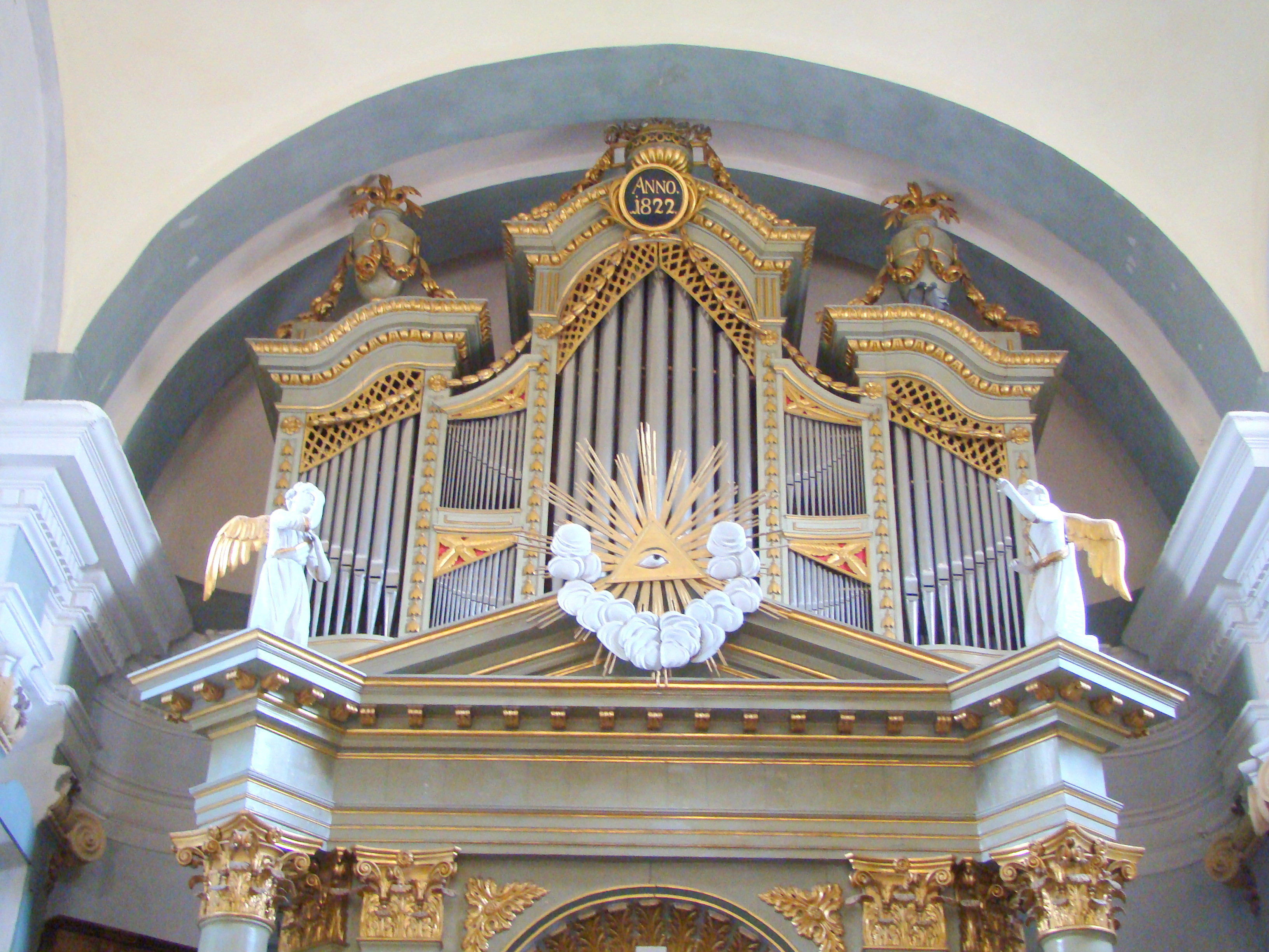 Fortified church in Criț, Brașov county, Romania